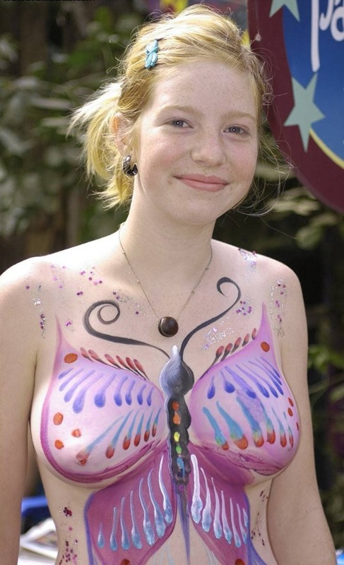 Butterfly painted on a young woman body.